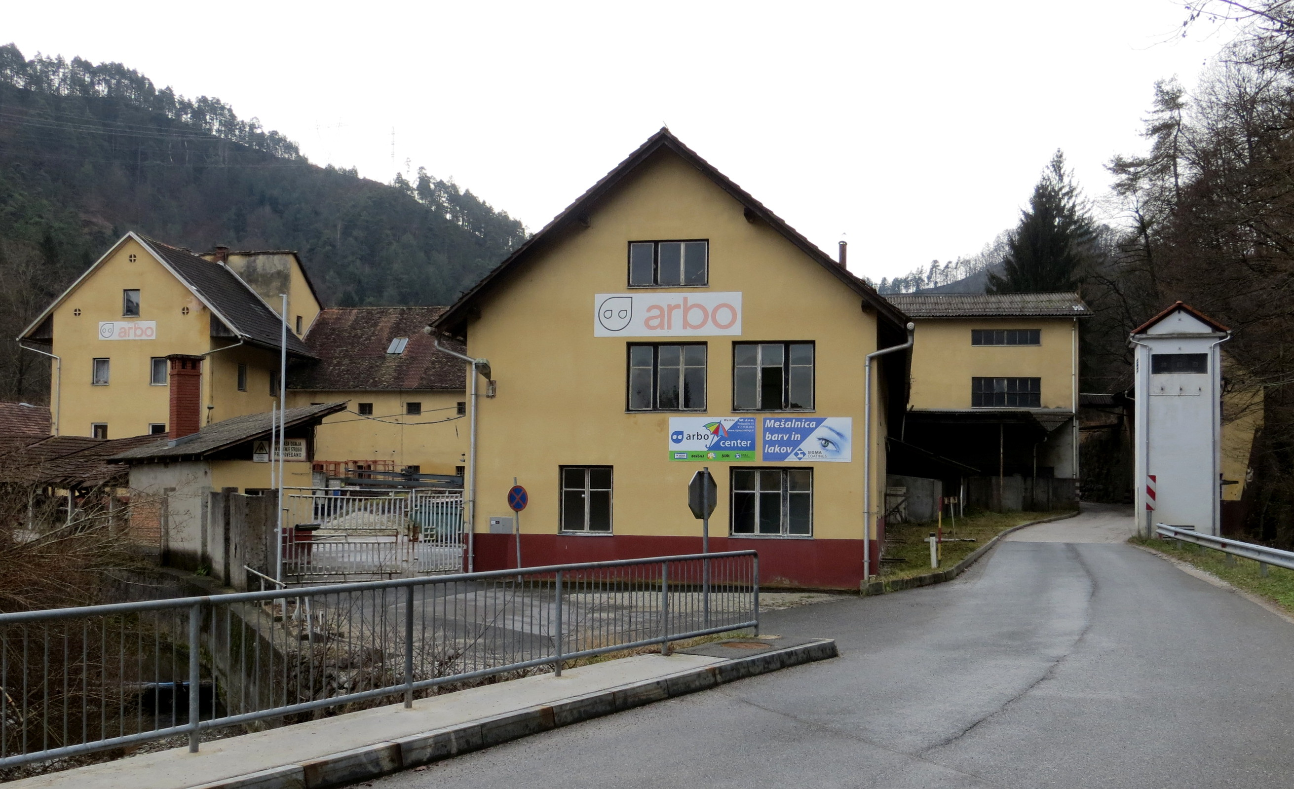 Arbo factory in Podgrad, City Municipality of Ljubljana, Slovenia